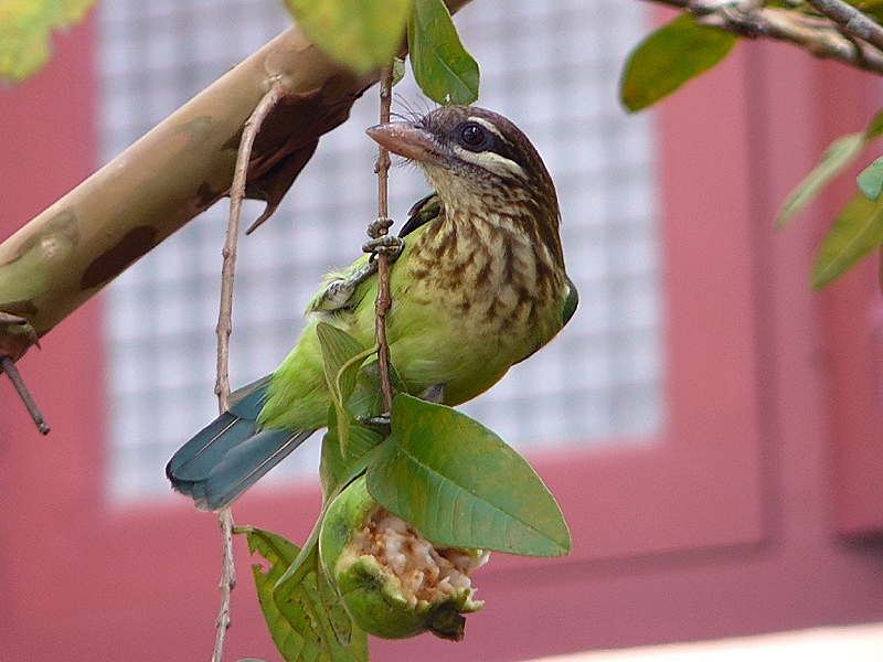 White-Cheeked Barbet in Kerala, India.